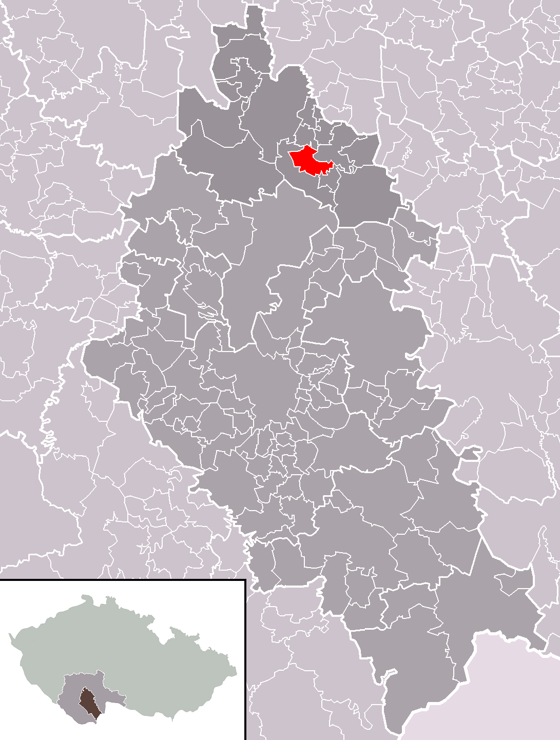 Location of Horní Kněžeklady municipality within České Budějovice District and administrative area of Týn nad Vltavou as a Municipality with Extended Competence.